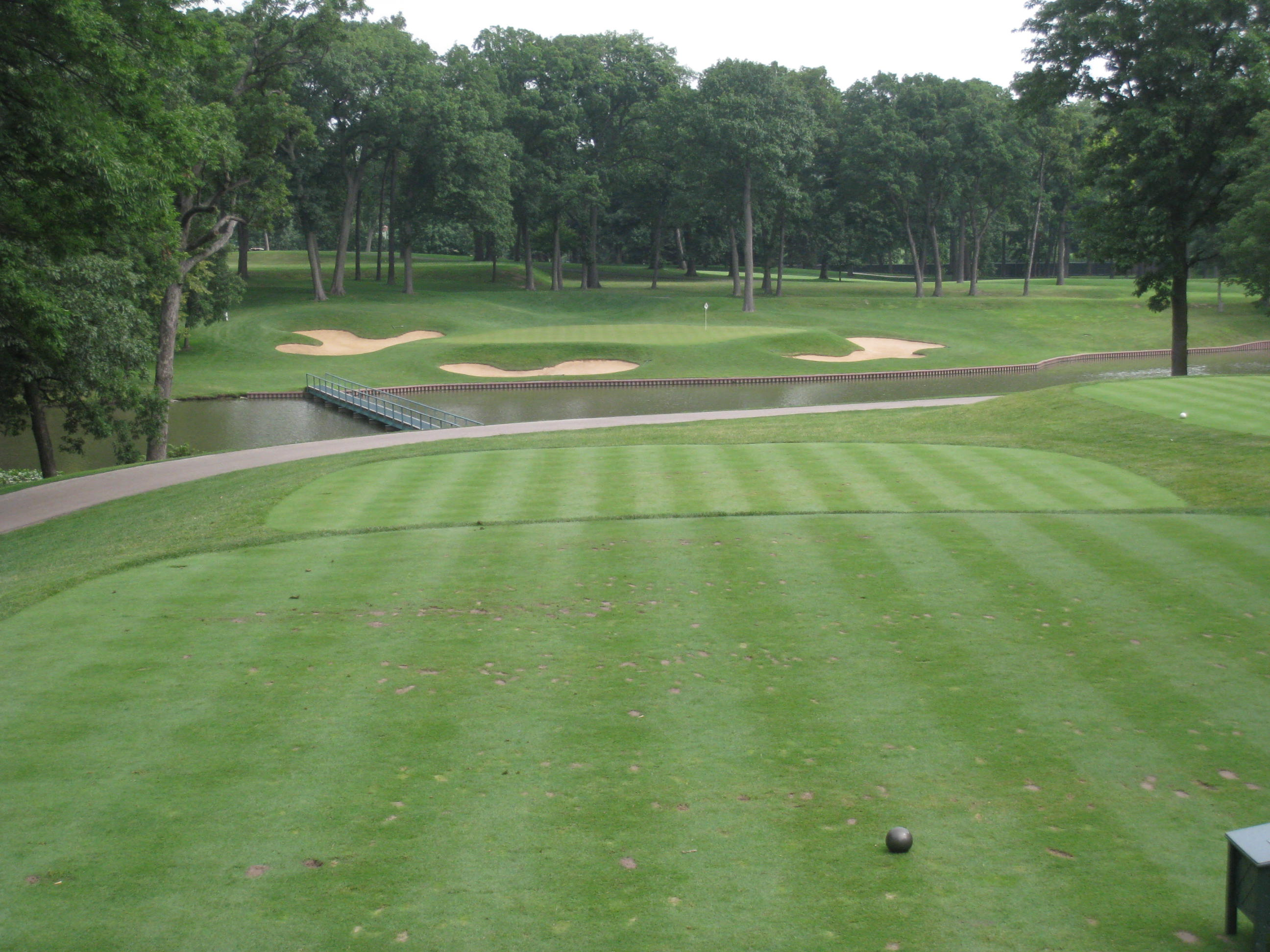 Thirteenth tee. Beauty of a par 3. My review of Medinah Country Club , including a tour of the clubhouse.